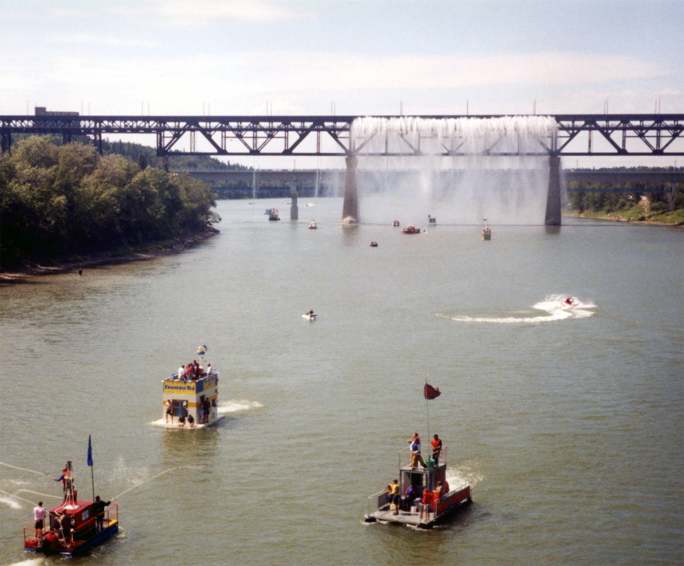 2001 Sourdough Raft Race, passing beneath the High Level Bridge's Great Divide waterfall. (Edmonton, Alberta)